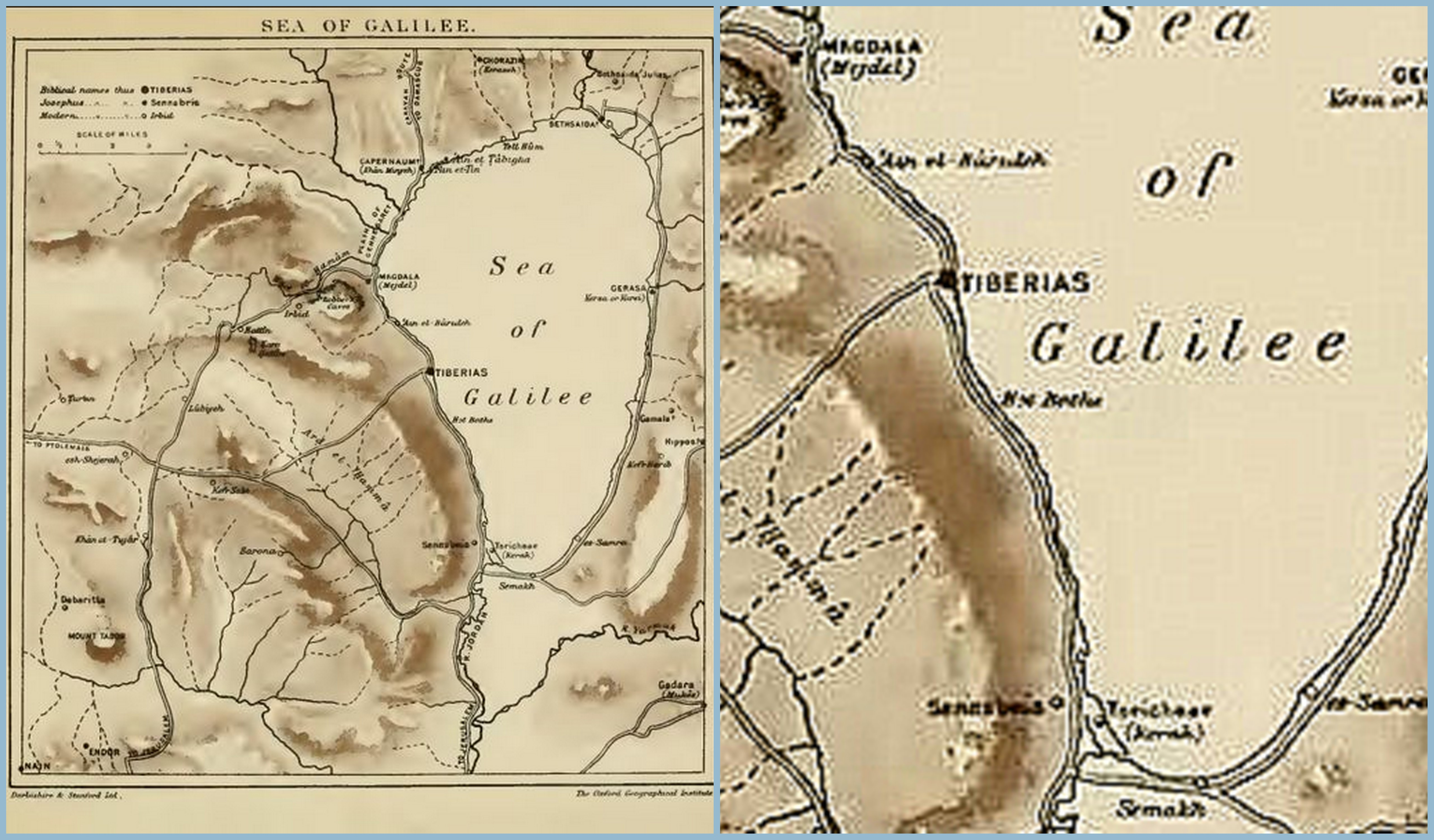 Map of sea of Galilee 1913